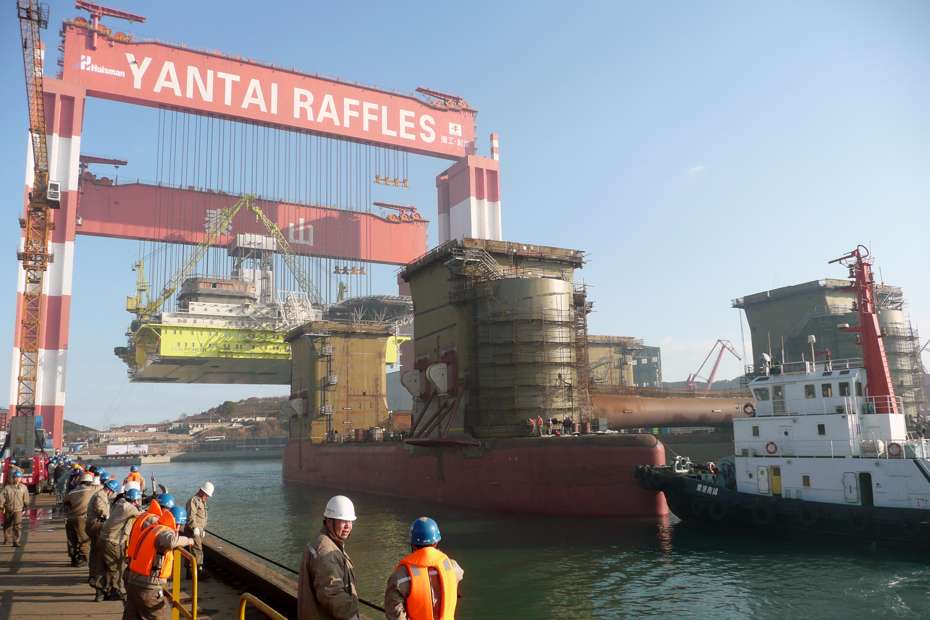 World's strongest crane TAISUN seen lifting the 14,000 metric ton deck box of the COSL Pioneer drilling semisubmersible while tugs are positioning the hull underneath.